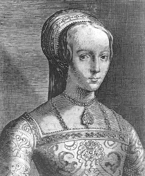 Lady Jane Grey, engraving